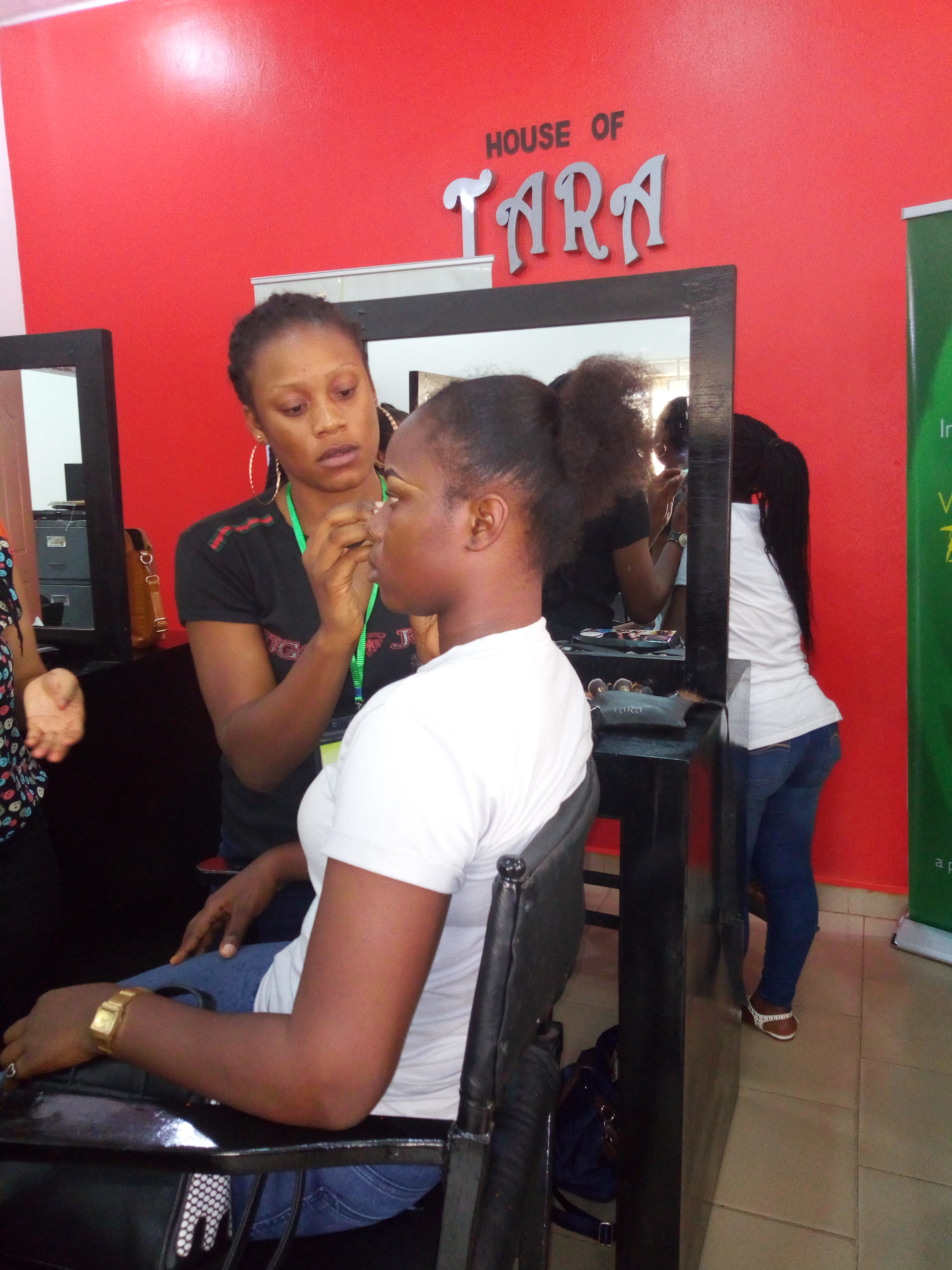 Two Nigerian women making up, Makeup, women, Nigeria, Benin city, Edo State, Cosmetology, Training, Skills.